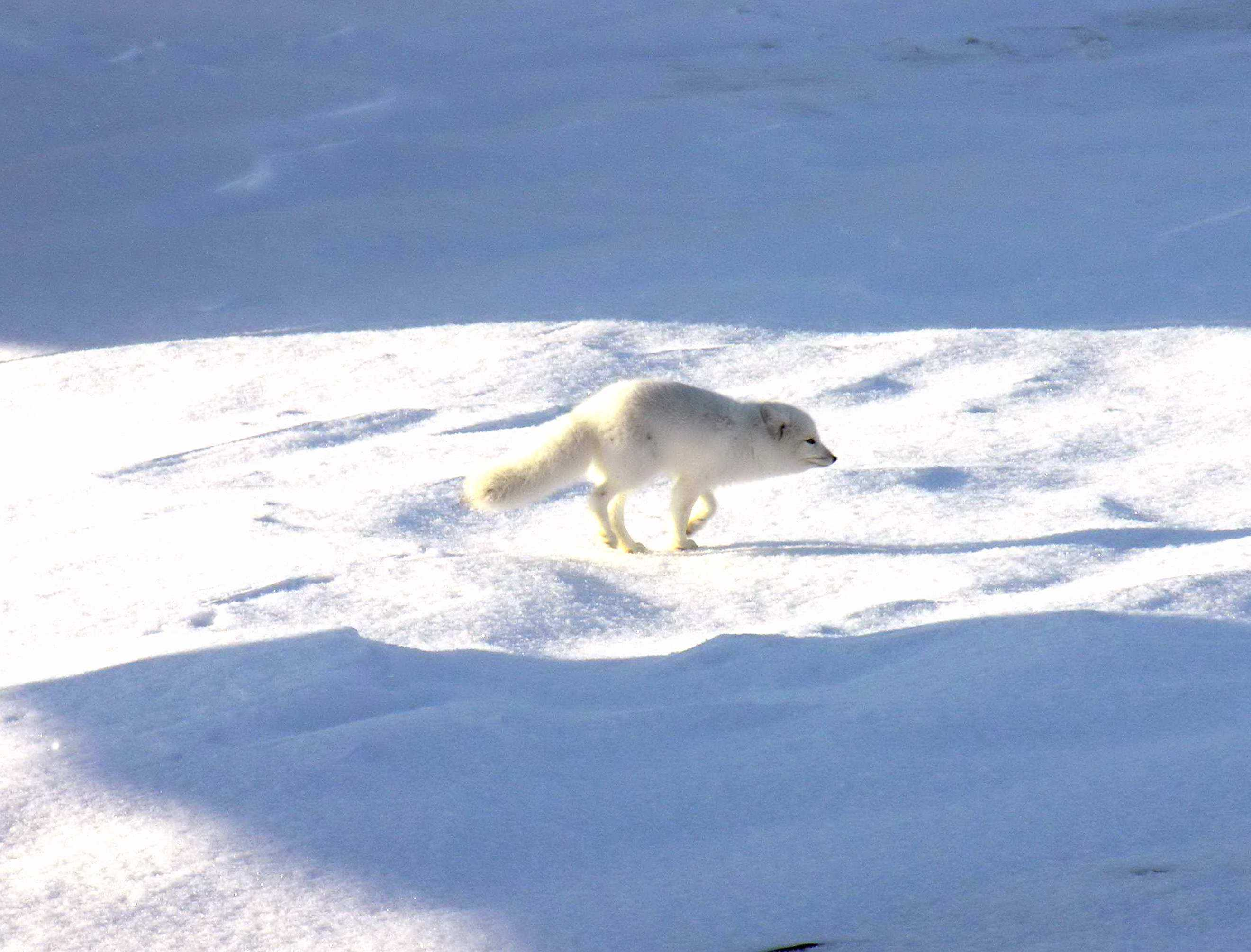 Arctic fox (Alopex lagopus) in Quttinirpaaq National Park, Nunavut, Canada